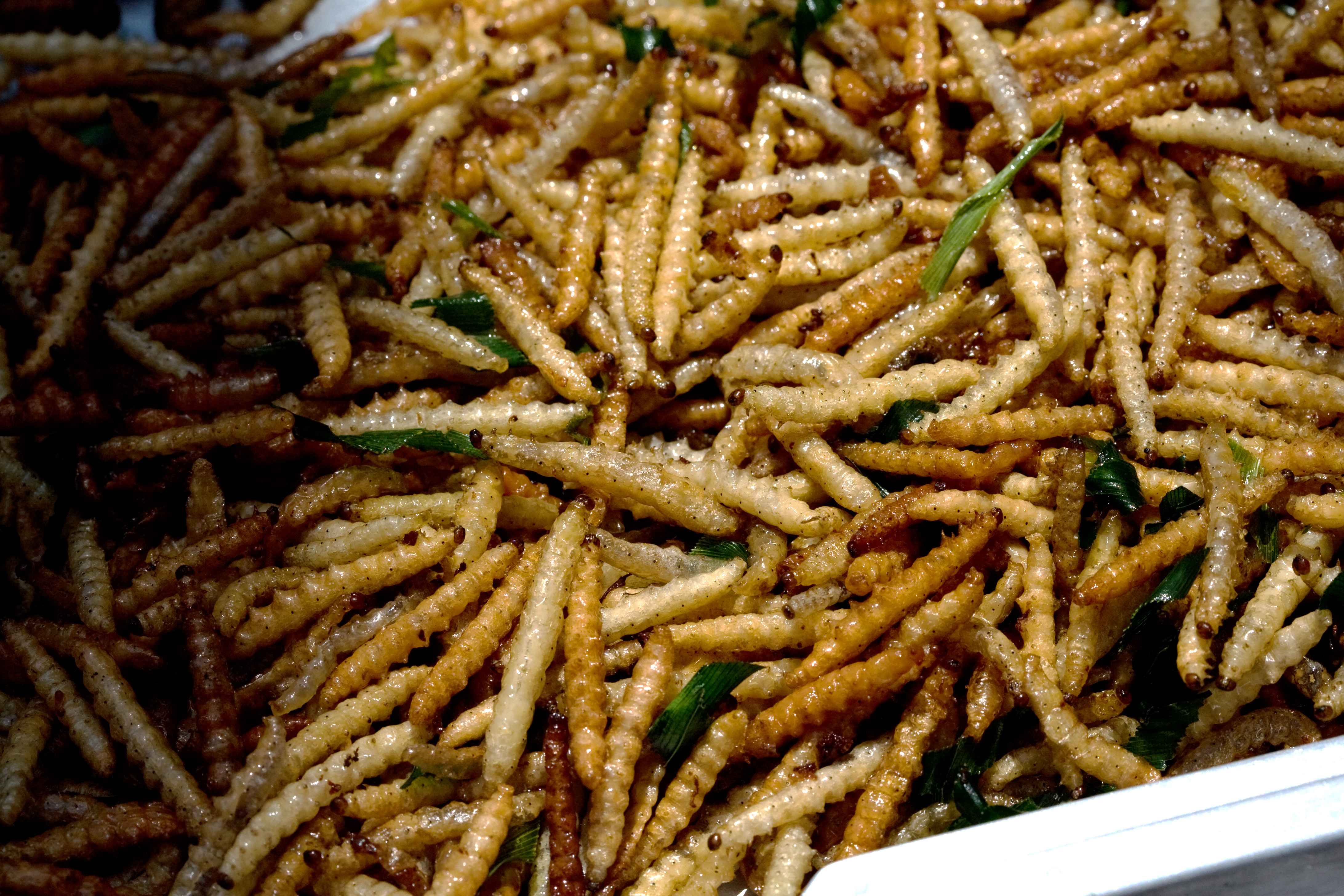 Bamboo worms as street food in Bangkok, Thailand